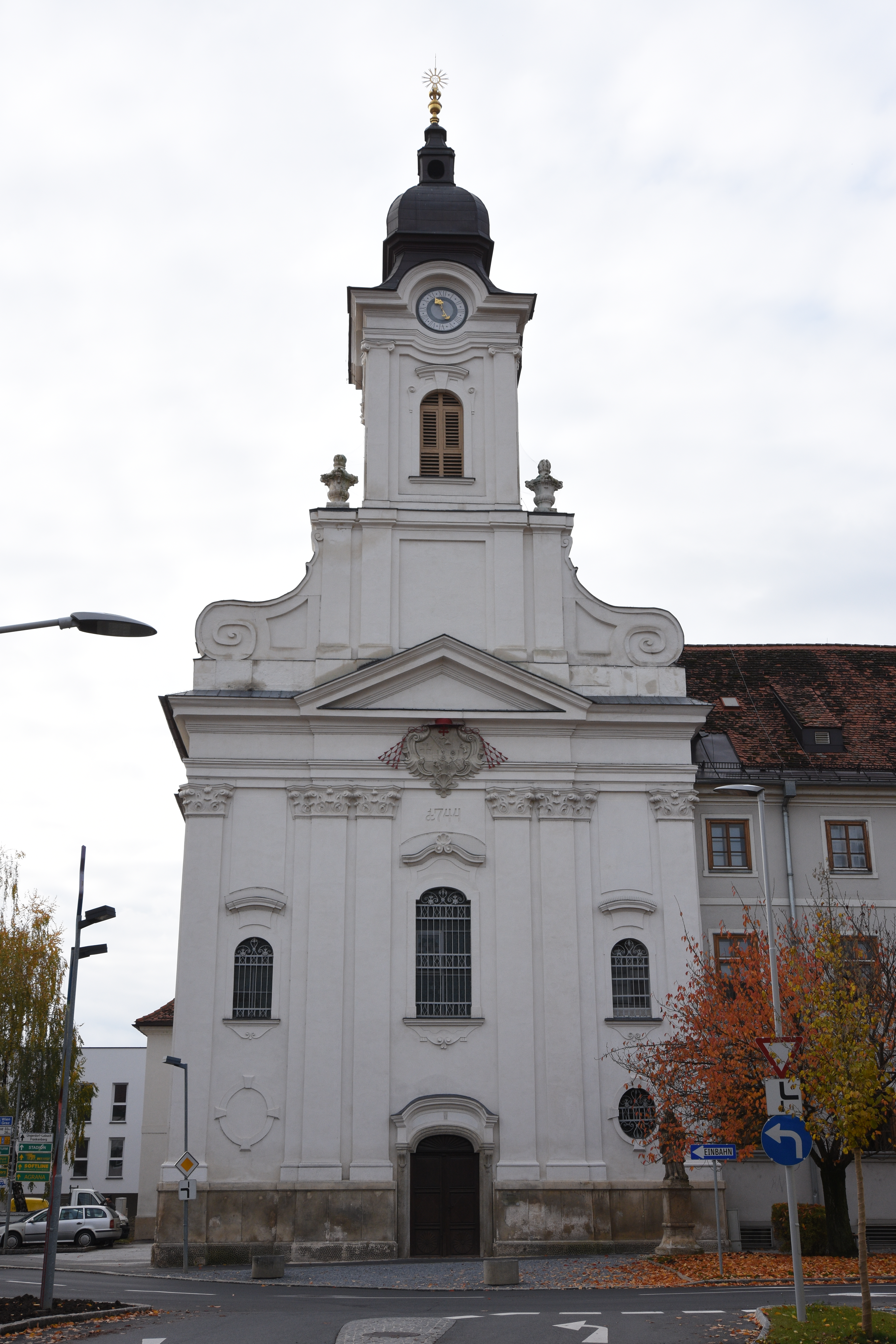 Church Mariä Reinigung Gleisdorf